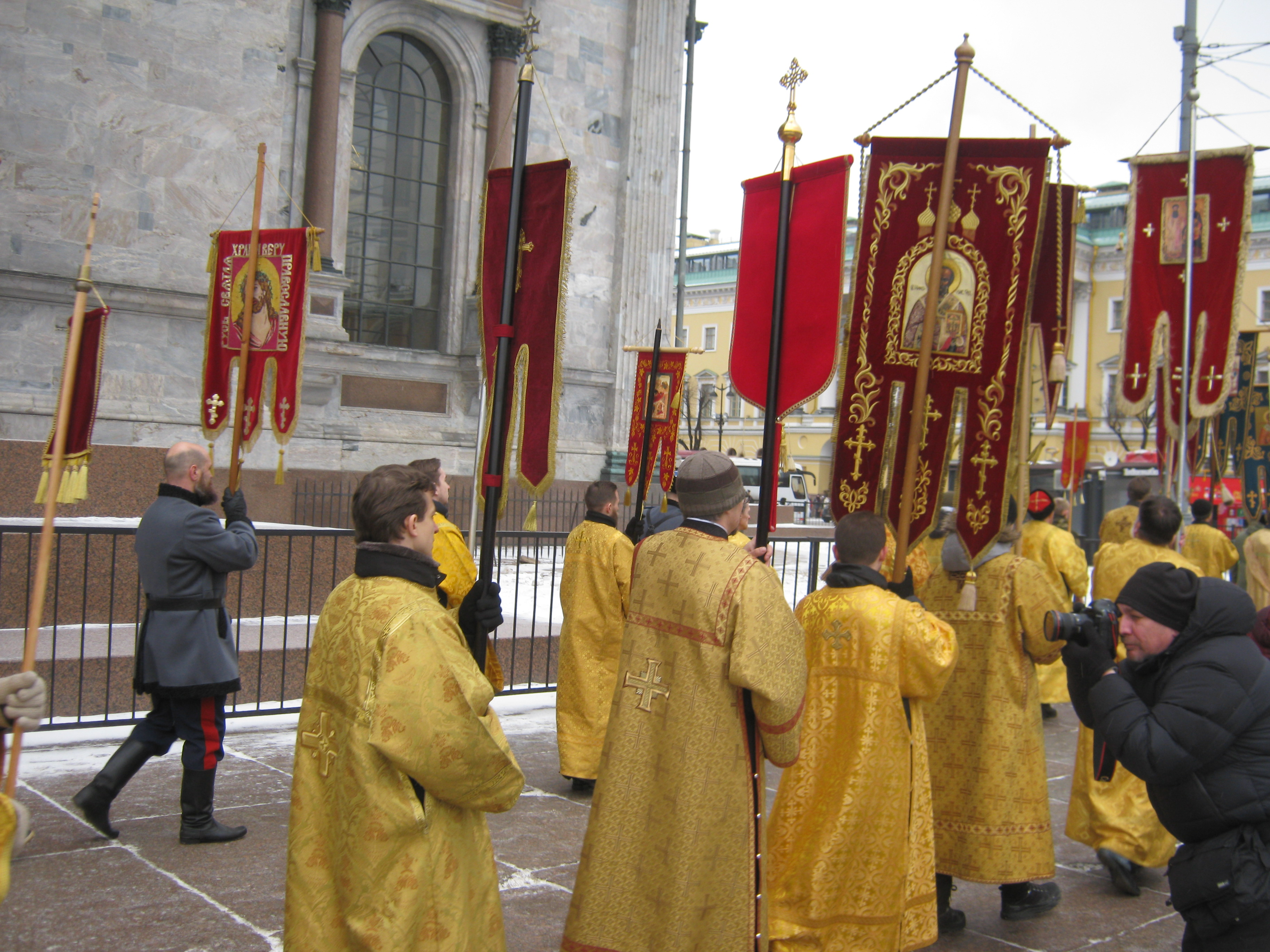 Live Circle around the St. Isaac's Cathedral (2017-02-12)